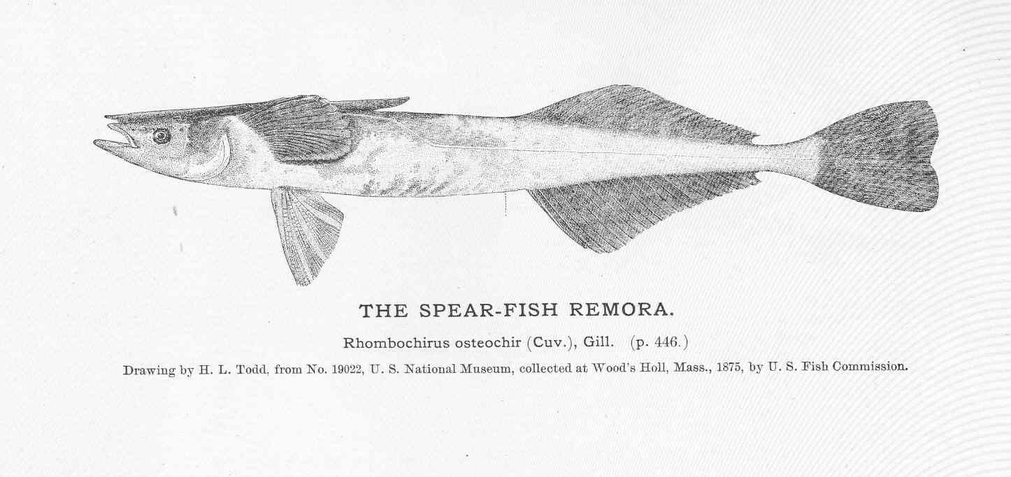 Spear-Fish Remora Rhombochirus osteochir (Cuv.), Gill Subject: Spearfishes, Echeneidae Tag: Fish